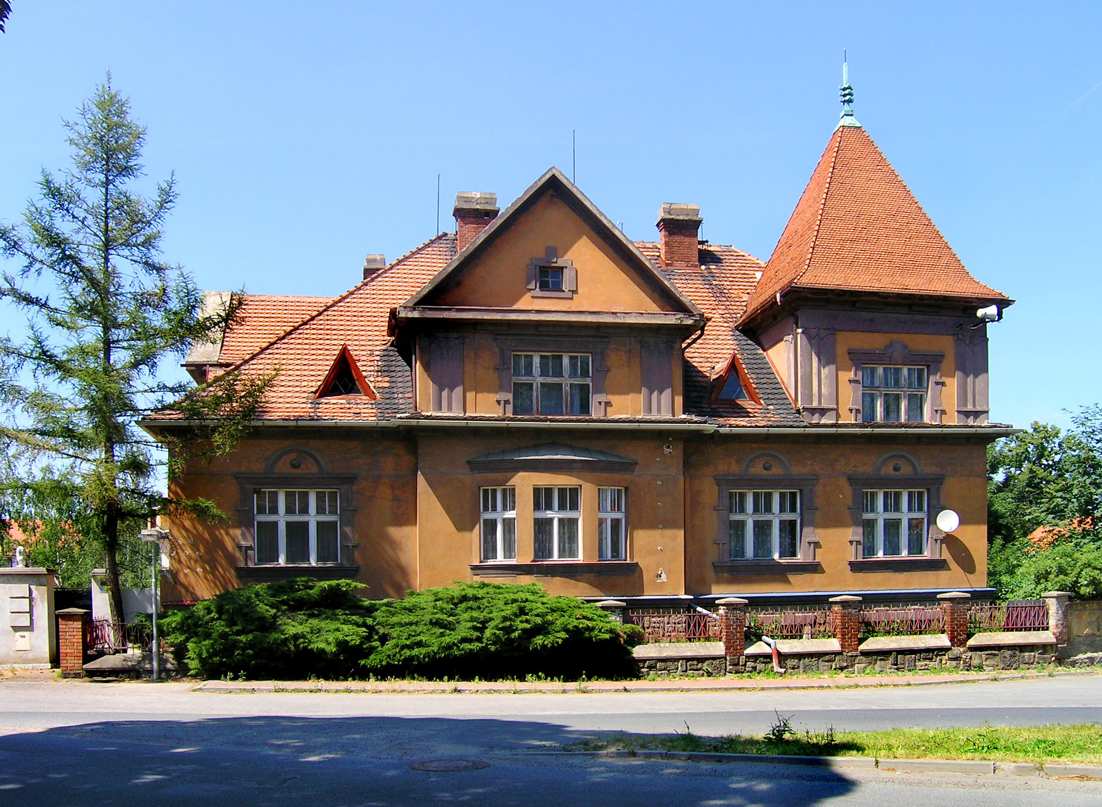 Common in Radonice, Czech Republic